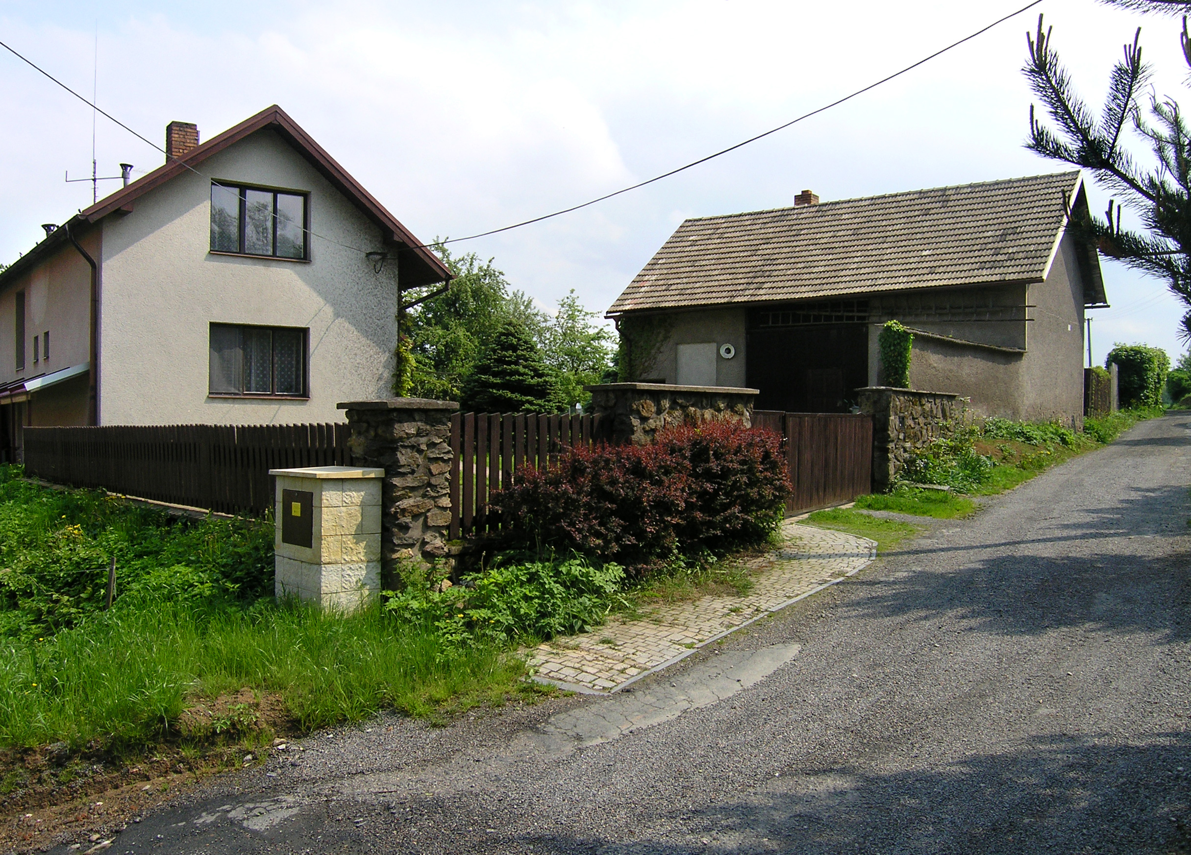 Dvorce, part of Kyjov village, Czech Republic